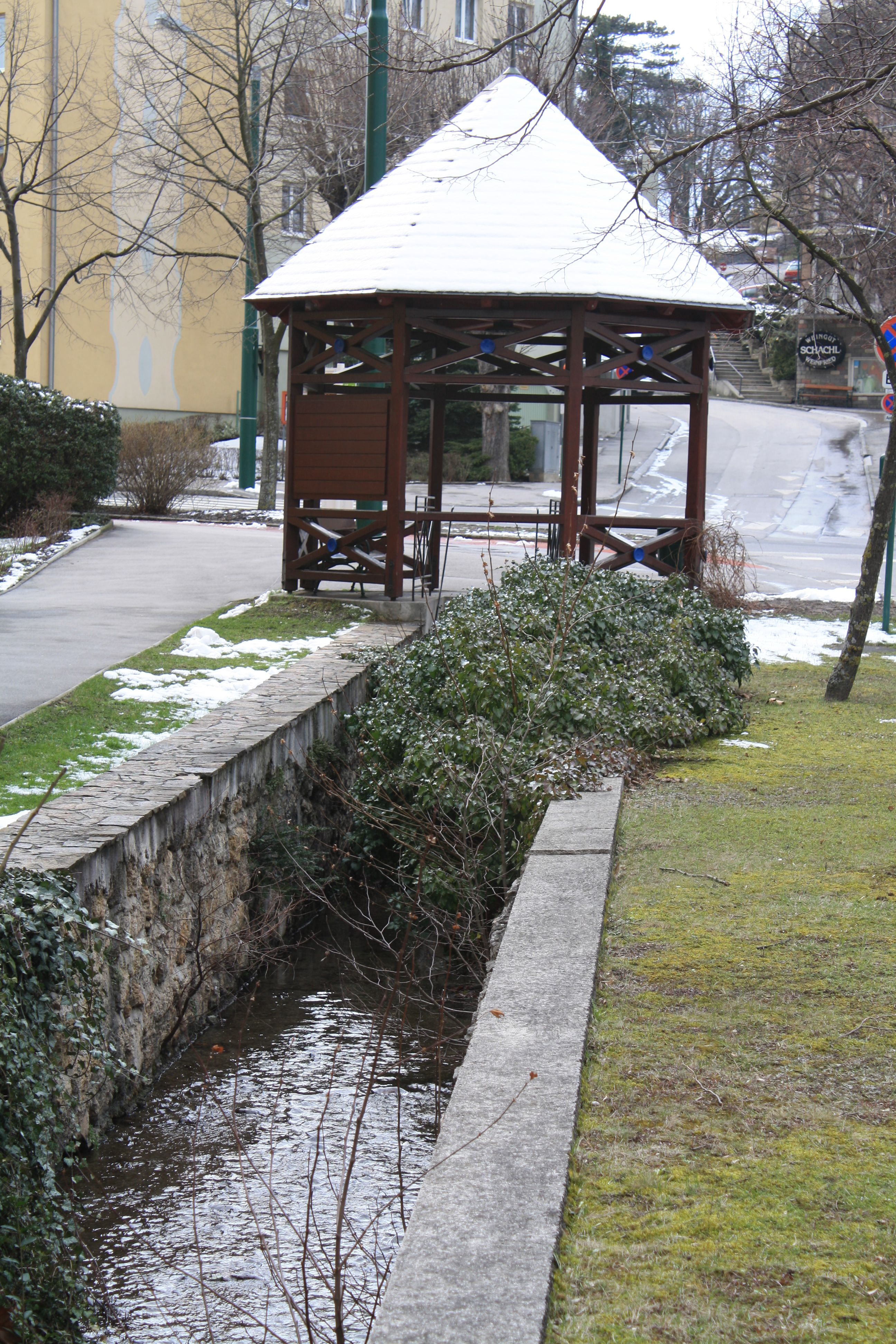 Nature monument Hansybach in Bad Vöslau, Lower Austria